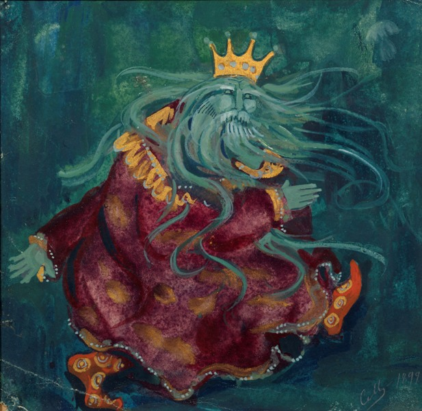 MALIUTIN, SERGEI, Morskoy Tsar, Gouache on paper, 21 by 21 cm. 4,000-6,000 GBP